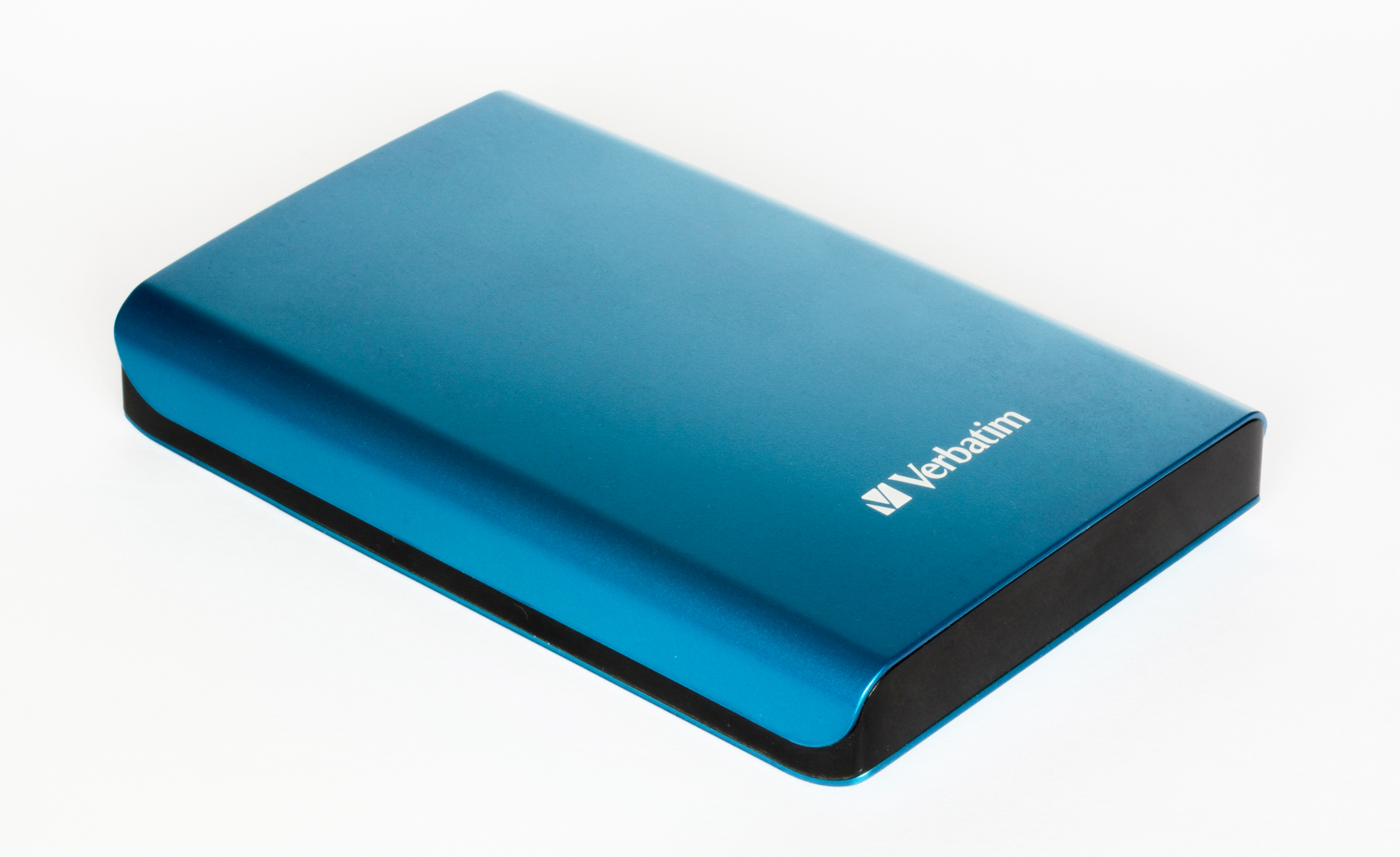 External HDD Verbatim, model #53036 1TB